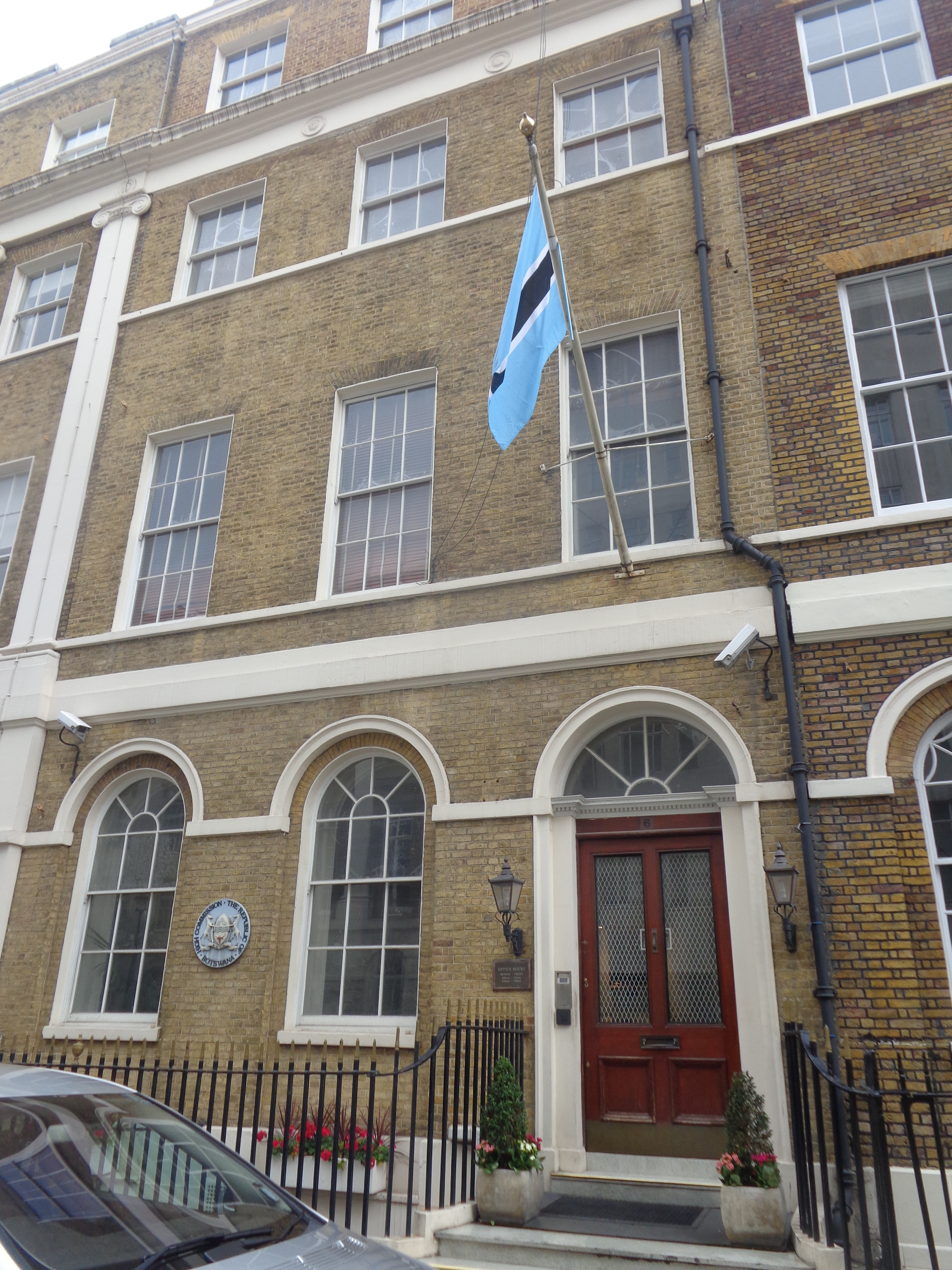 High Commission of the Republic of Botswana, Stratford Place, City of Westminster. Taken on the afternoon of Thursday the 25th of September 2014.